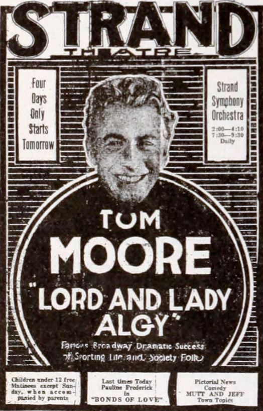 Newspaper advertisement for the American comedy film Lord and Lady Algy (1919) with Tom Moore, originally for the Strand Theater in Portland, Oregon, on page 68 of the January 3, 1920 Exhibitors Herald.